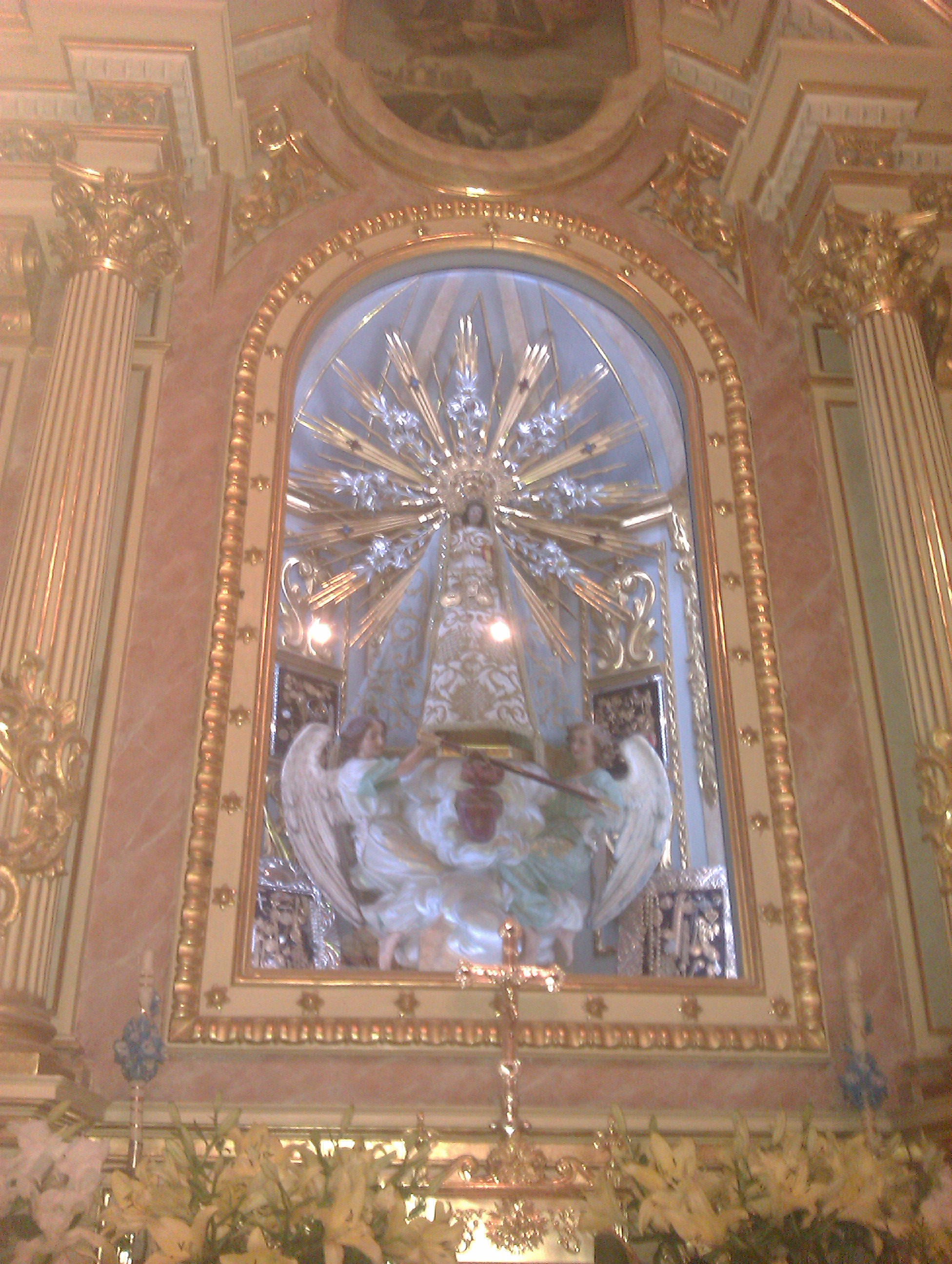 Image of Our Lady of Suffrage at Saint Mary's Chapell of the "Parish Church of Saint James and Saint Anne" of Benidorm